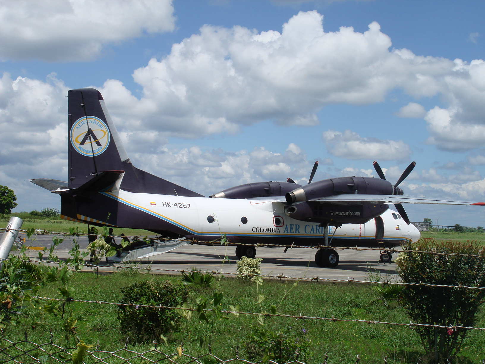 Antonov AN32 en el aeropuerto La Florida.